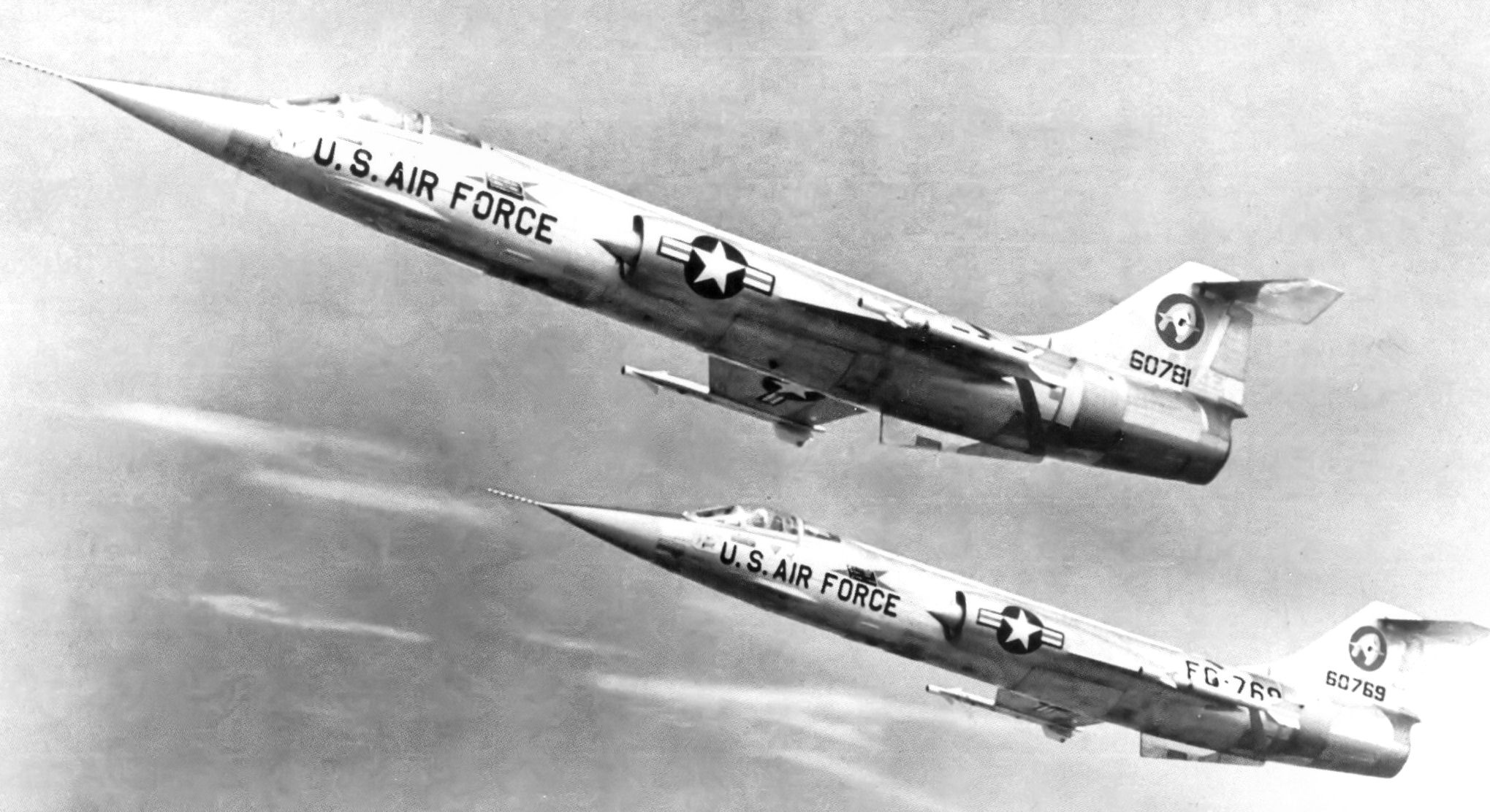 83d Fighter-Interceptor Squadron Lockheed F-104A Starfighters, Hamilton AFB, California, 1958. Visible are 56-781 and 58-769